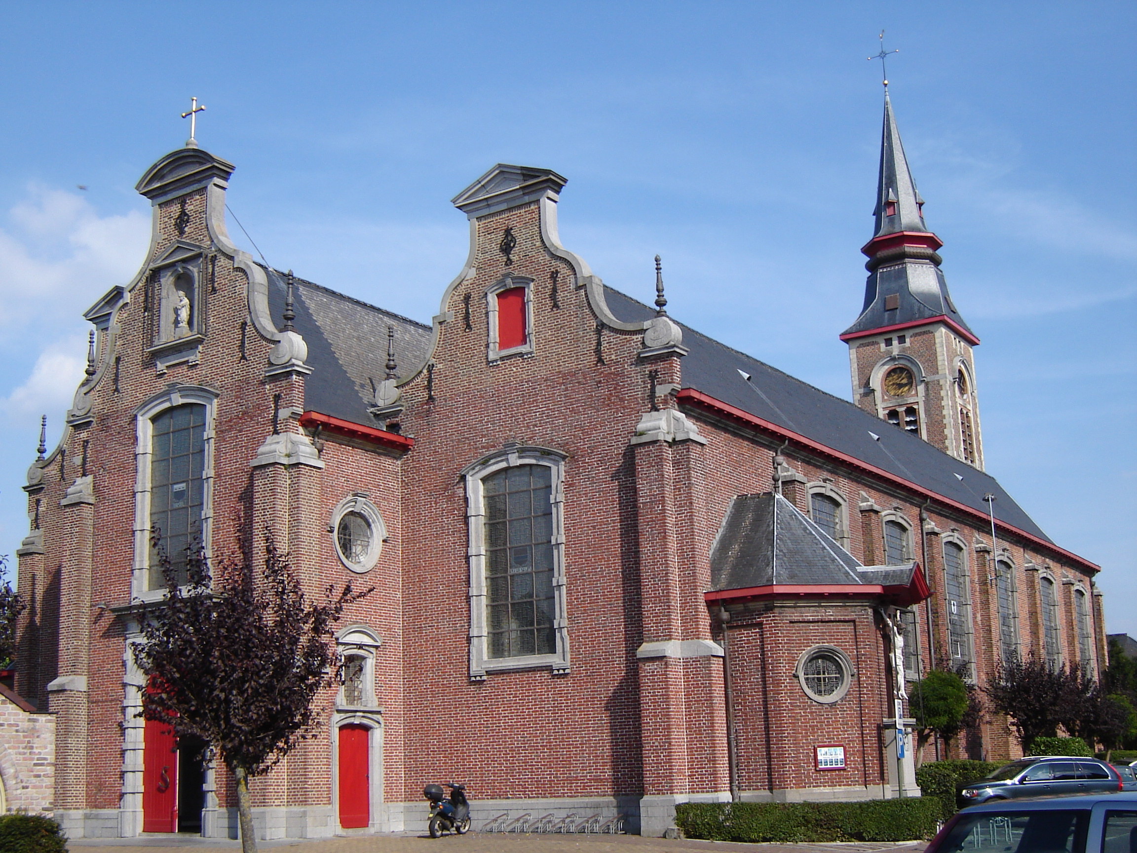 Church of Saint Lambert in Oedelem. Oedelem, Beernem, West Flanders, Belgium